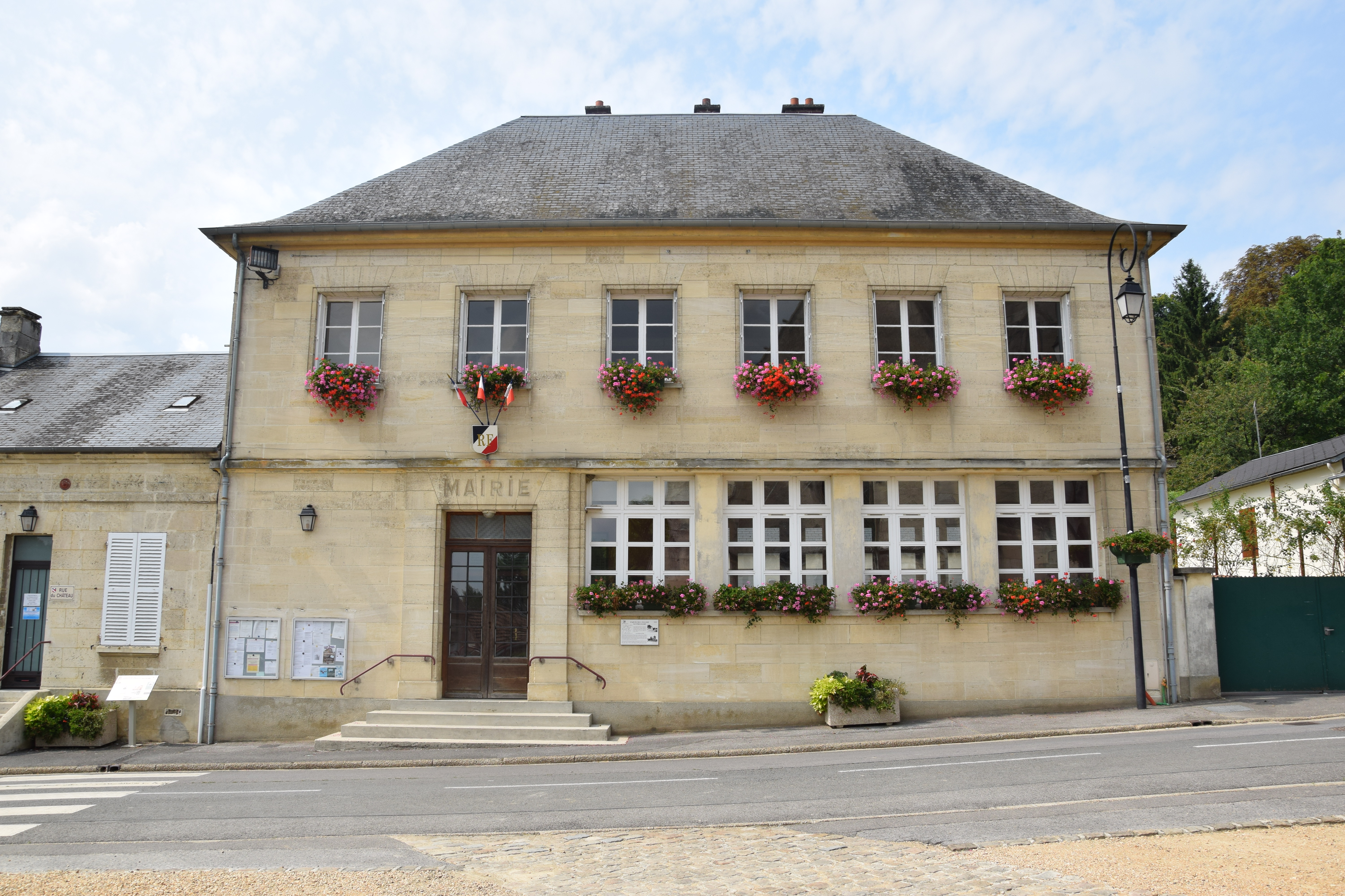 Chiry-Ourscamp